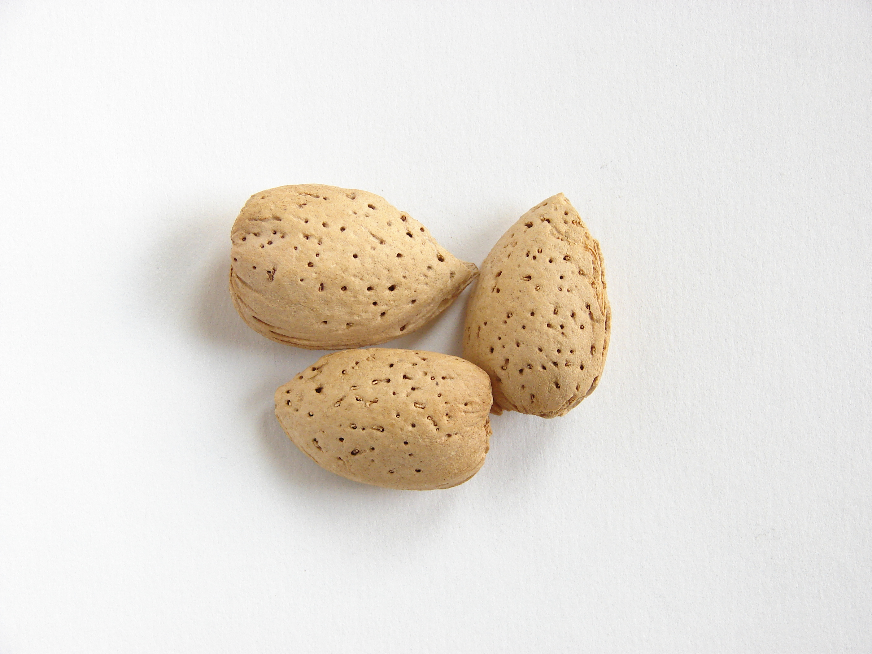 Unshelled almonds (Prunus dulcis).